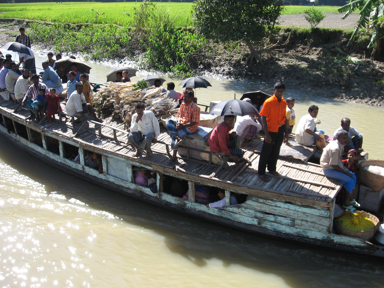 A small launch carrying passengers in the haor region